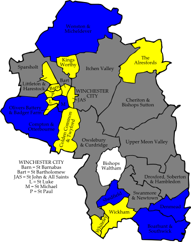 A map of the results of the 2008 Winchester Council election. Colour legend by wards won: Liberal Democrats Conservative party Independent Wards in grey were not contested in 2008.